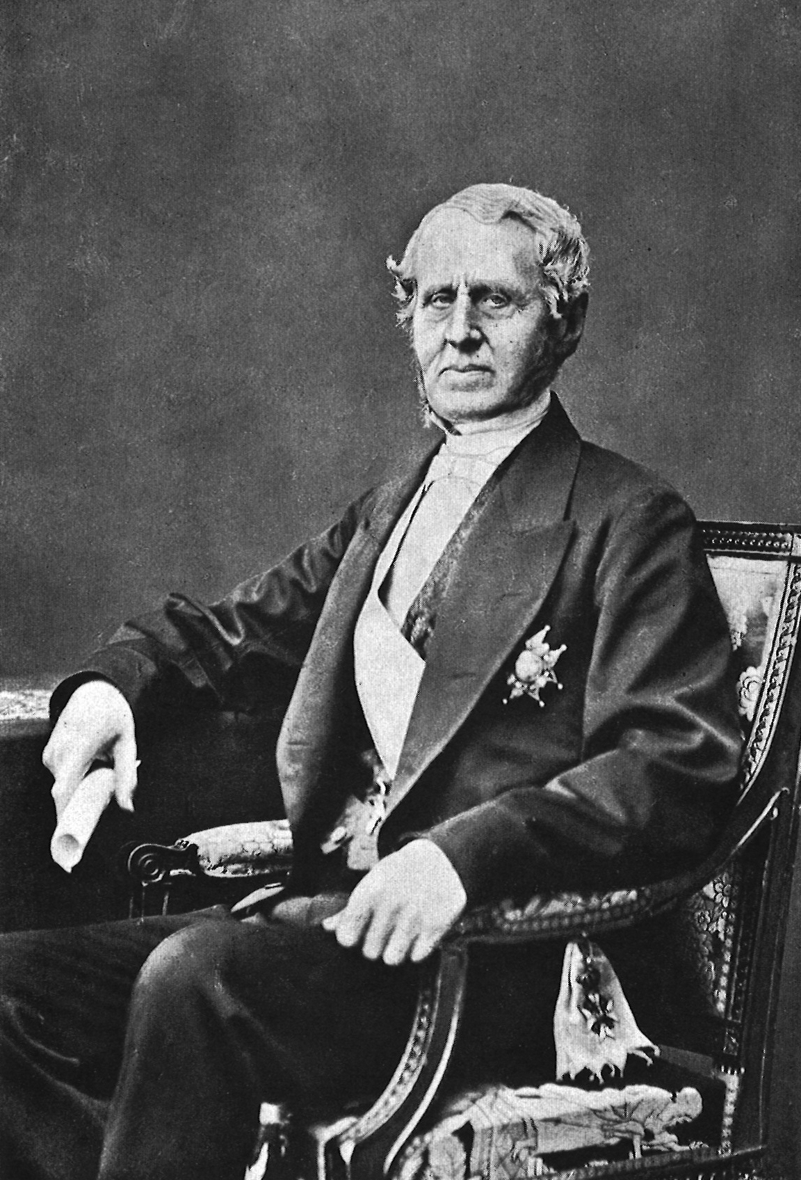 Gustaf Sparre (1802-1886), Swedish count, jurist, member of Parliament, prime minister and university chancellor